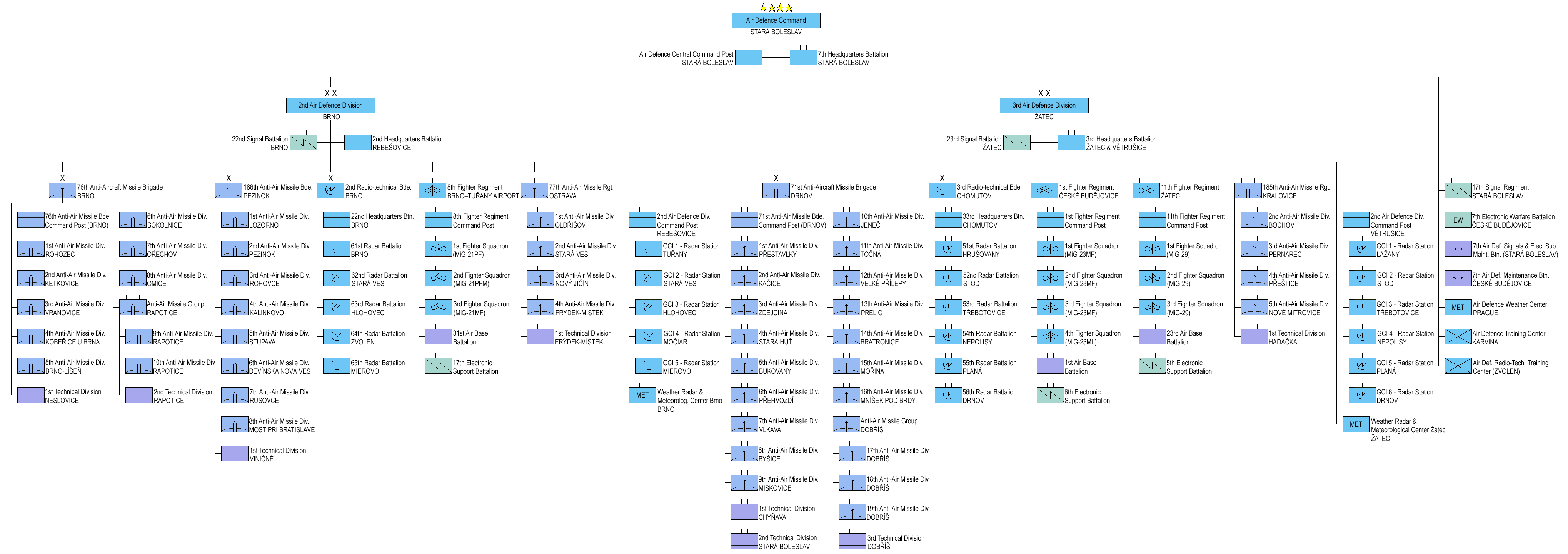 Military of Czechoslovakia: Air Defence Forces Structure in 1989